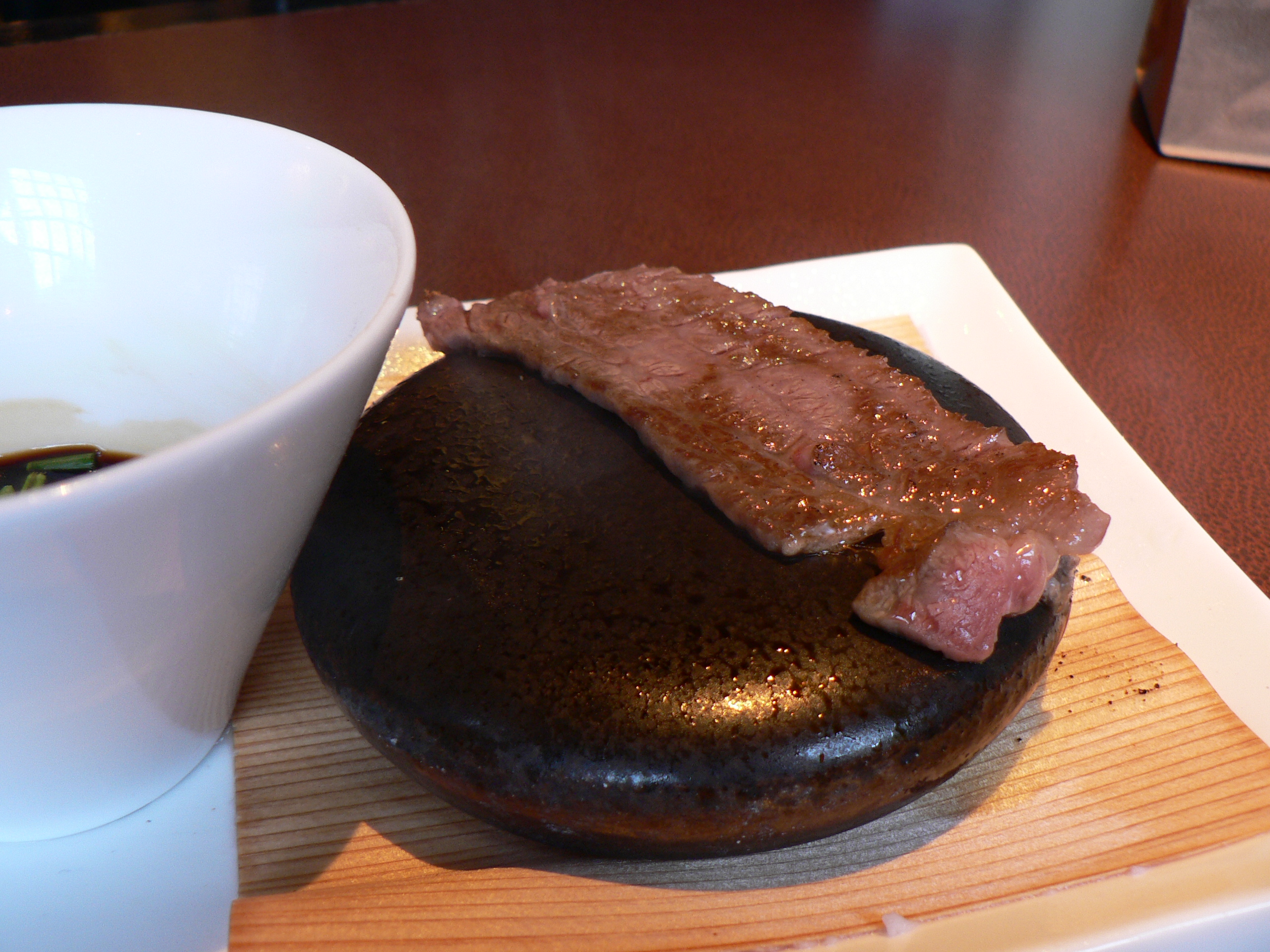 Kobe beef ishiyaki style (cook the beef for 15-30 seconds on each side)